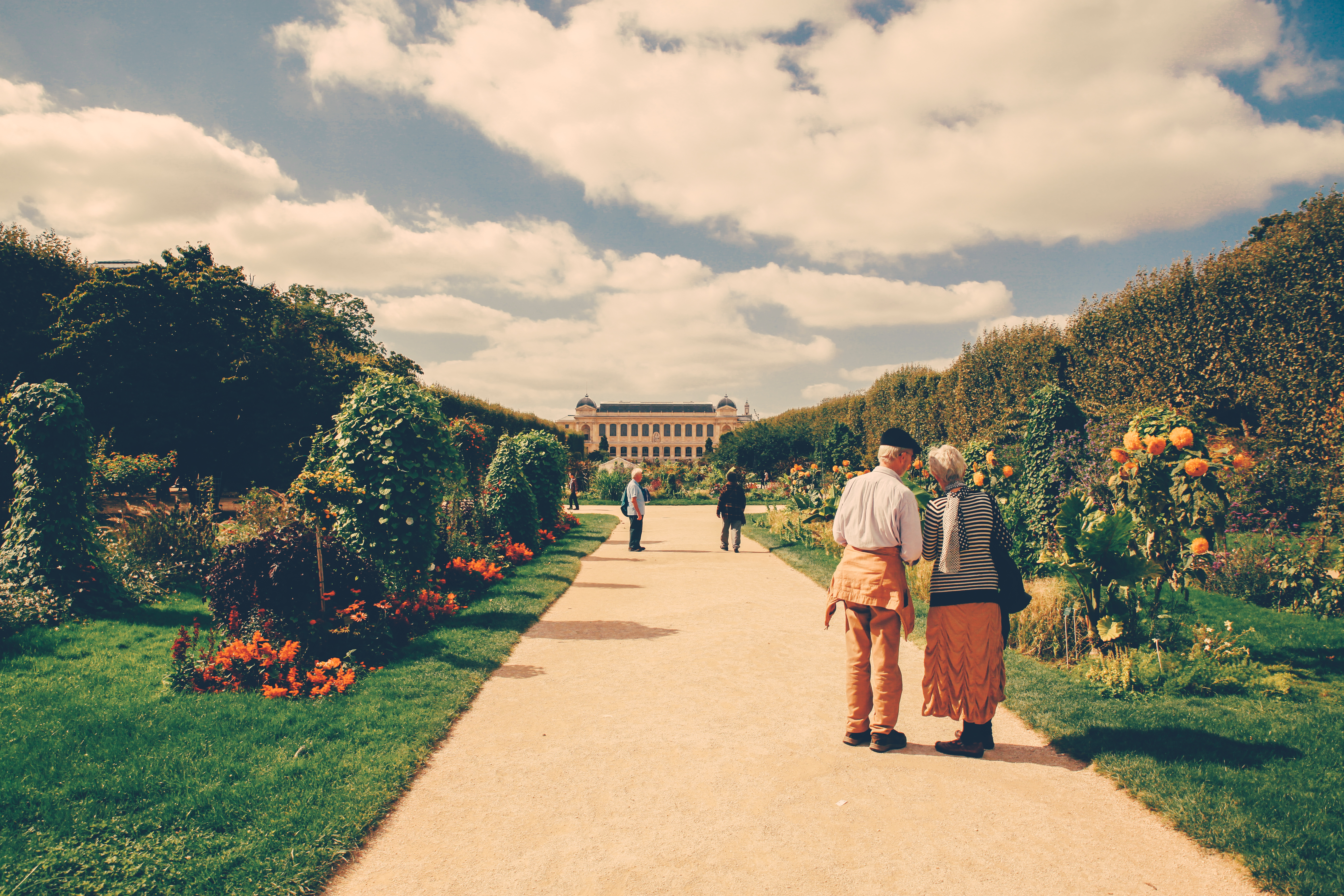 Façade of the Gallery of Evolution (grande galerie de l'Évolution), which is a zoology museum building belonging to the French National Museum of Natural History. The Gallery of Evolution's building is located in the Jardin des plantes in Paris.